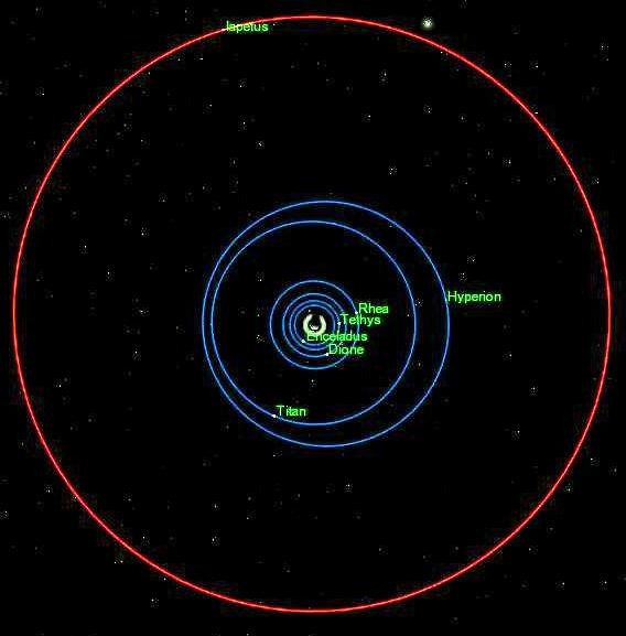 Polar view of Iapetus's orbit . Image created using Celestia software.